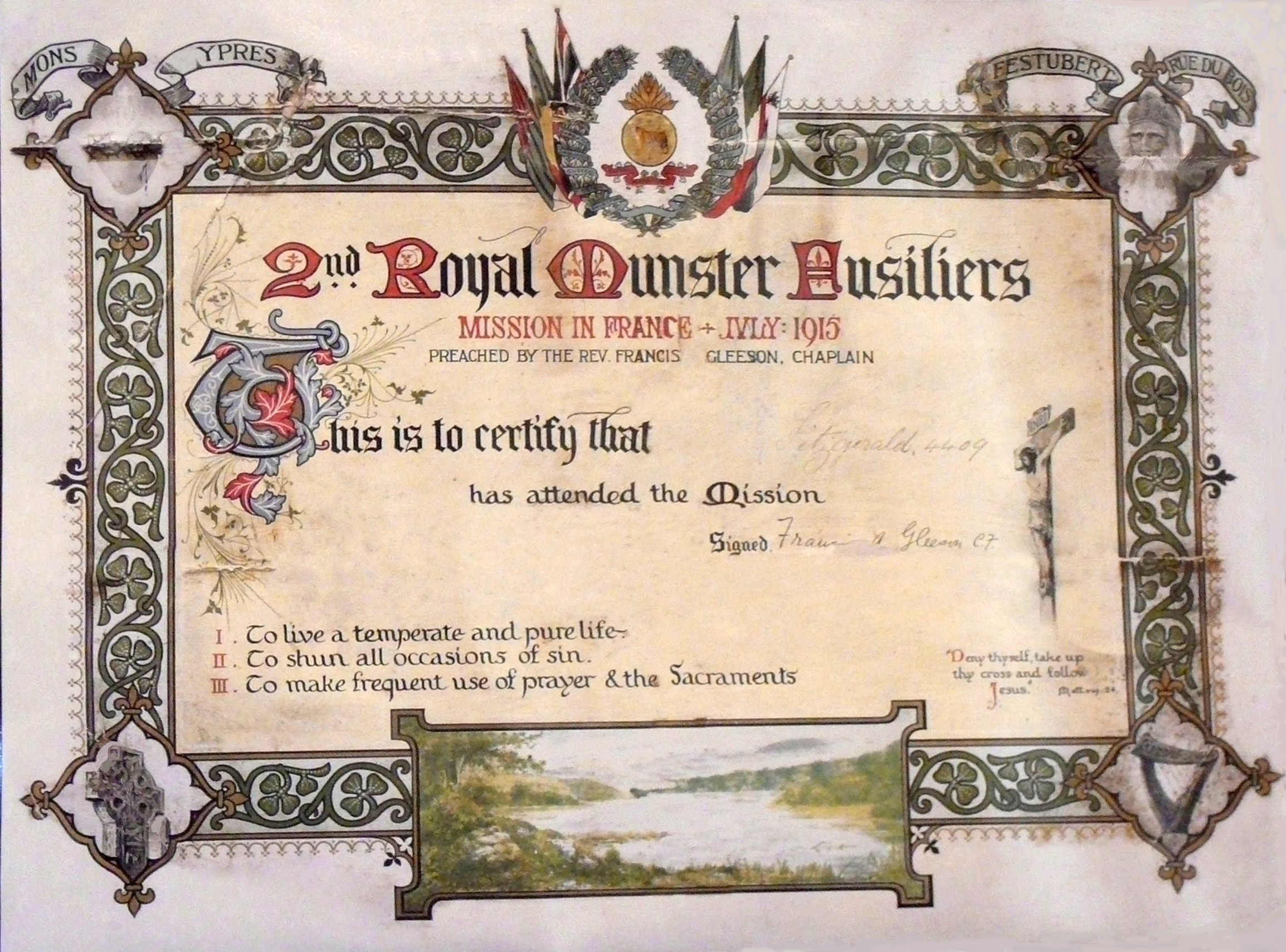 Chaplain Father Francis Gleeson's document certifying attendance at his Mission in France for the 2nd Battalion of the Royal Munster Fusiliers, July 1915. The document belongs to a collection of WWI items held on public display by the Royal Munster Fusiliers Association.